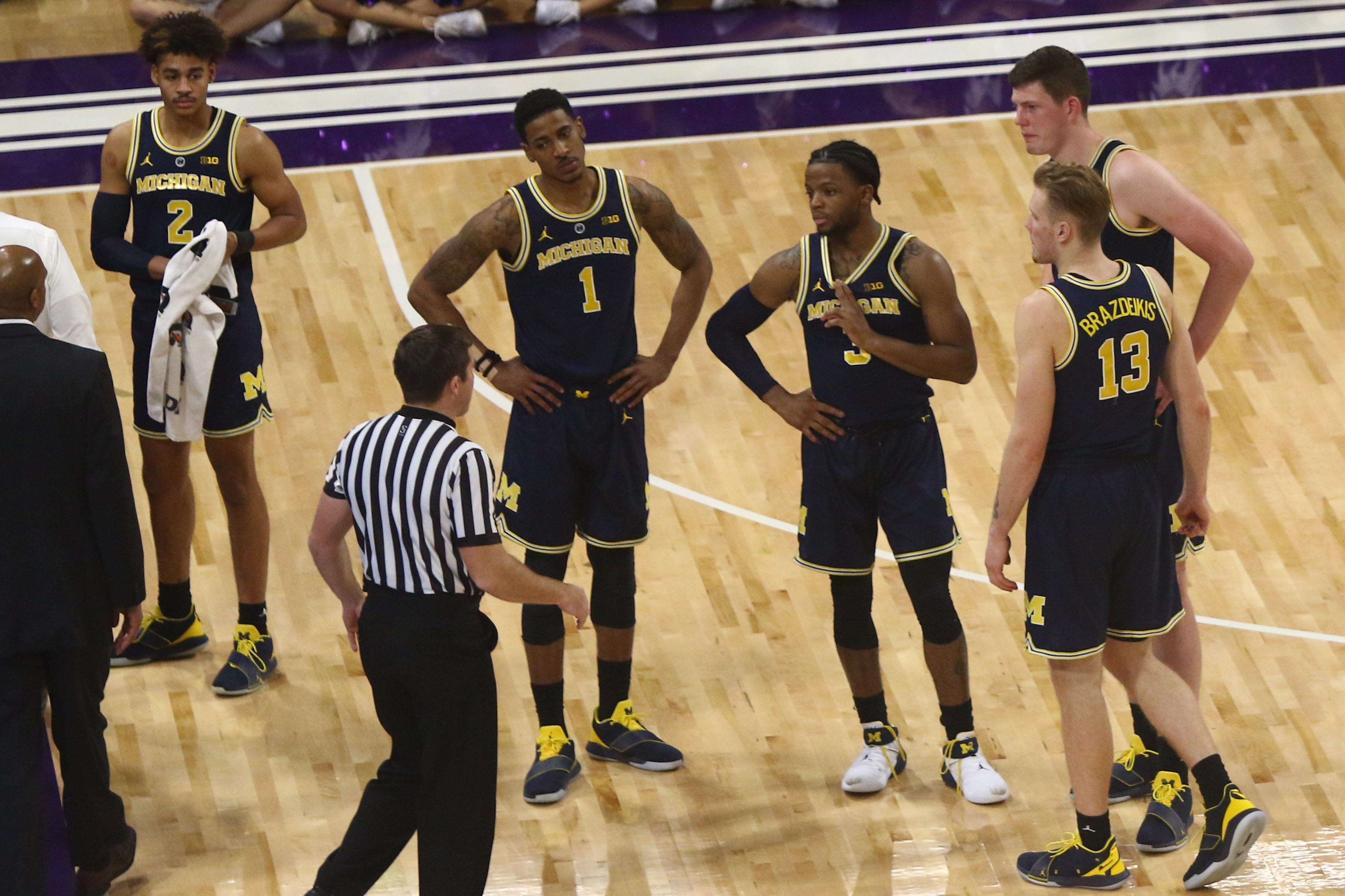 The starting five for the w:2018–19 Michigan Wolverines men's basketball team (left to right, #2 Jordan Poole, #1 Charles Matthews (basketball), #3 Zavier Simpson, Jon Teske and #13 Iggy Brazdeikis) at Welsh–Ryan Arena